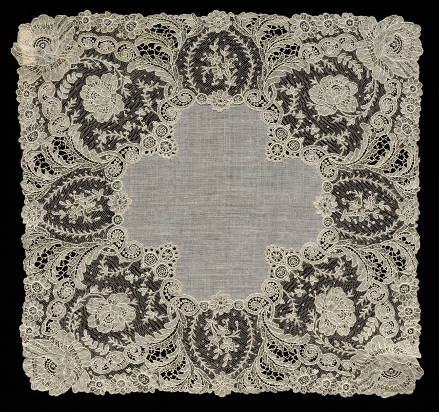 Needlepoint (Point de Gaze) Lace Handkerchief, 19th century. Flanders. 32.3 x 30.6 cm (12 11/16 x 12 1/16 in.)